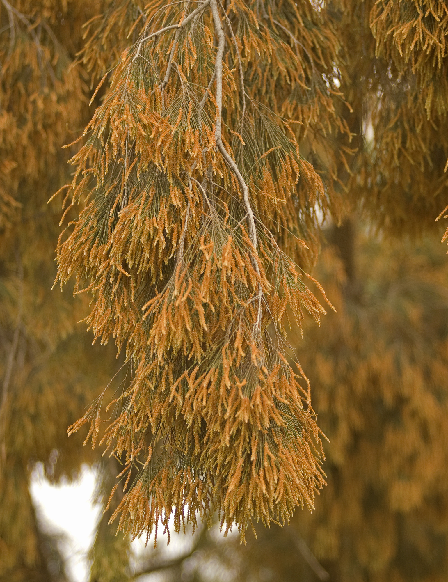 Casuarina cunninghamiana (River She-Oak) in full flower photographed on Dalman Parkway in the Wagga Wagga suburb of Glenfield Park.